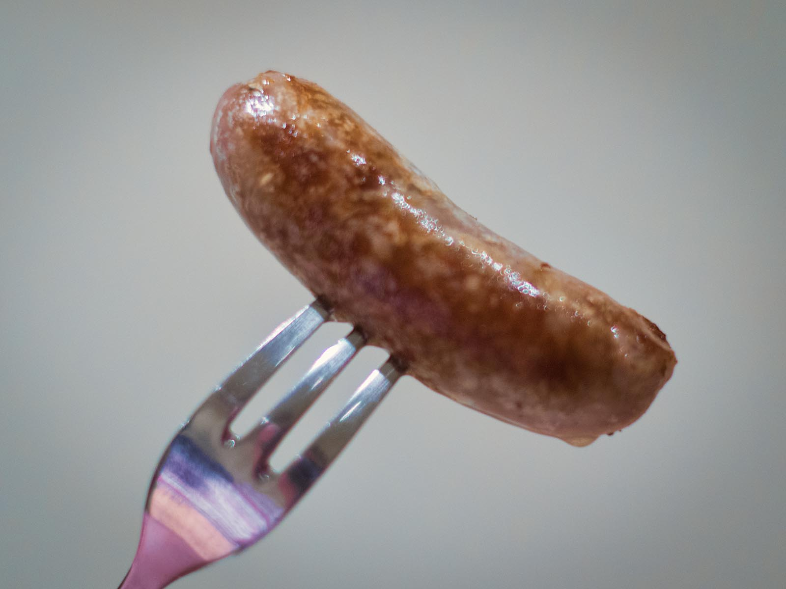 a cooked Newmarket Sausage on a fork